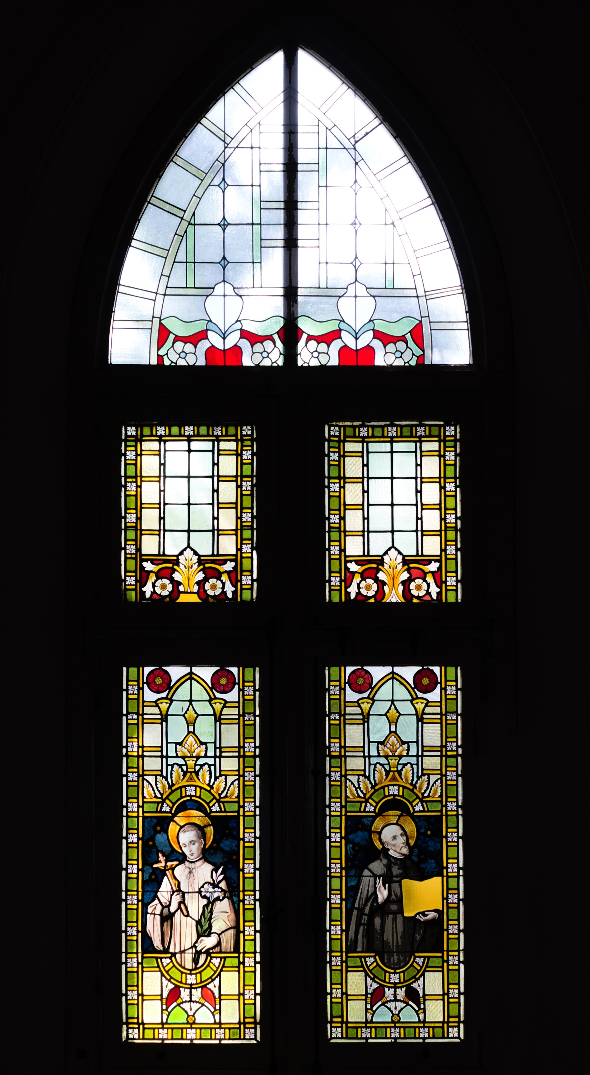 Stained glass window, Gedangan Church, 2014-06-24